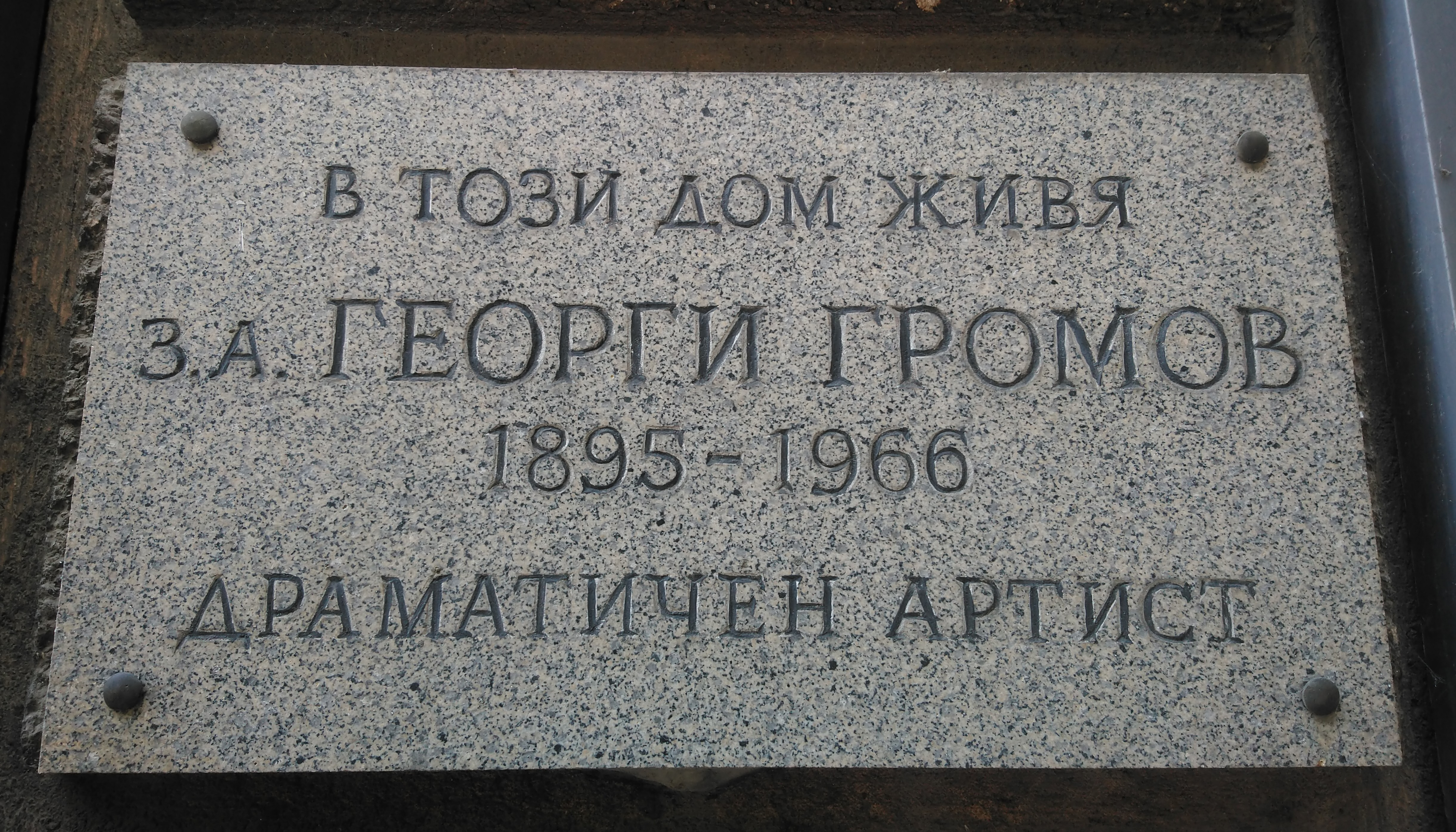 Georgi Gromov memorial plaque, 6 Slavyanska Str., Sofia